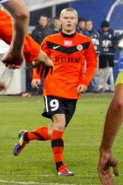 Lithuanian football player Darvydas Šernas as playing for Zagłębie Lubin.